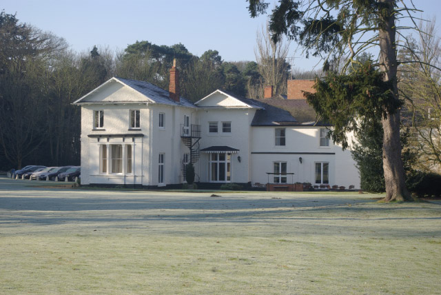 Brandon Hall Hotel Former shooting lodge, now a hotel run by Mercure Hotels, on a sunny but frosty morning following a bitterly cold night.